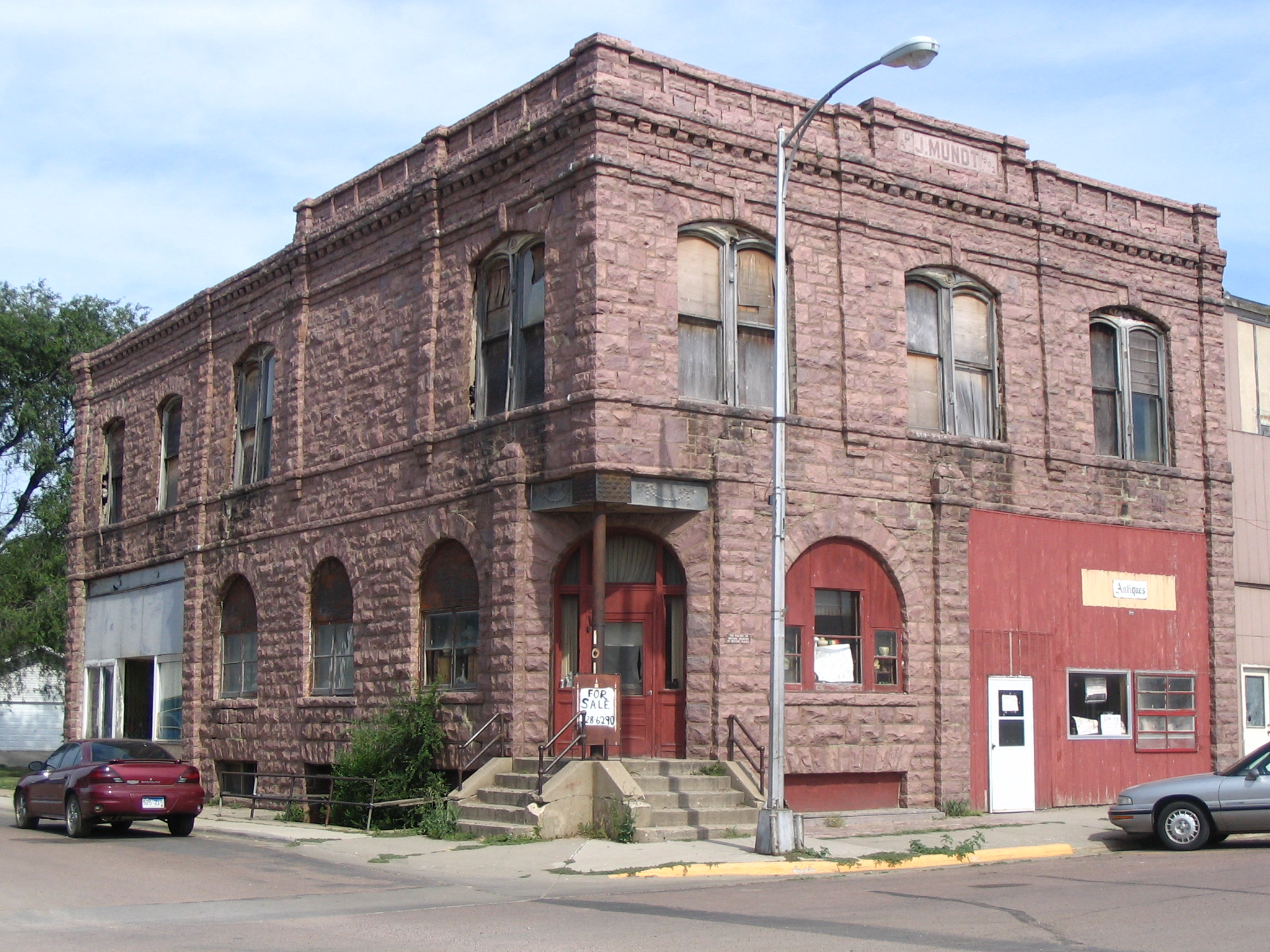 Mundt Block, Hartford, South Dakota. This building is listed on the National Register of Historic Places.